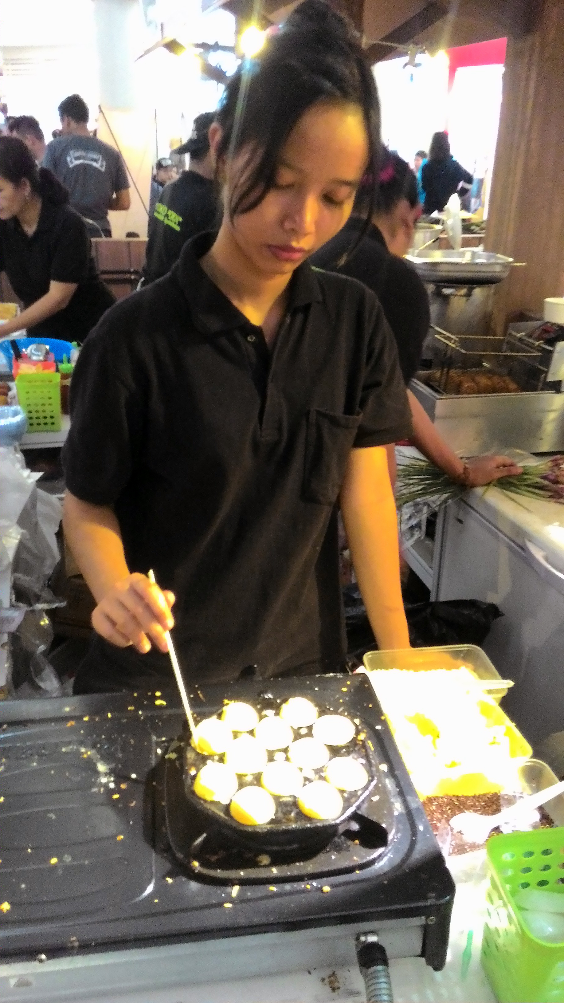 Poffertjes making in Toko Oen stall during Kampoeng Legenda Food Festival in Mal Ciputra, Jakarta, Indonesia. Poffertjes is a Dutch snack, popular since colonial Dutch East Indies era.